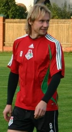 Vladimir Maminov as a player of FC Lokomotiv Moscow